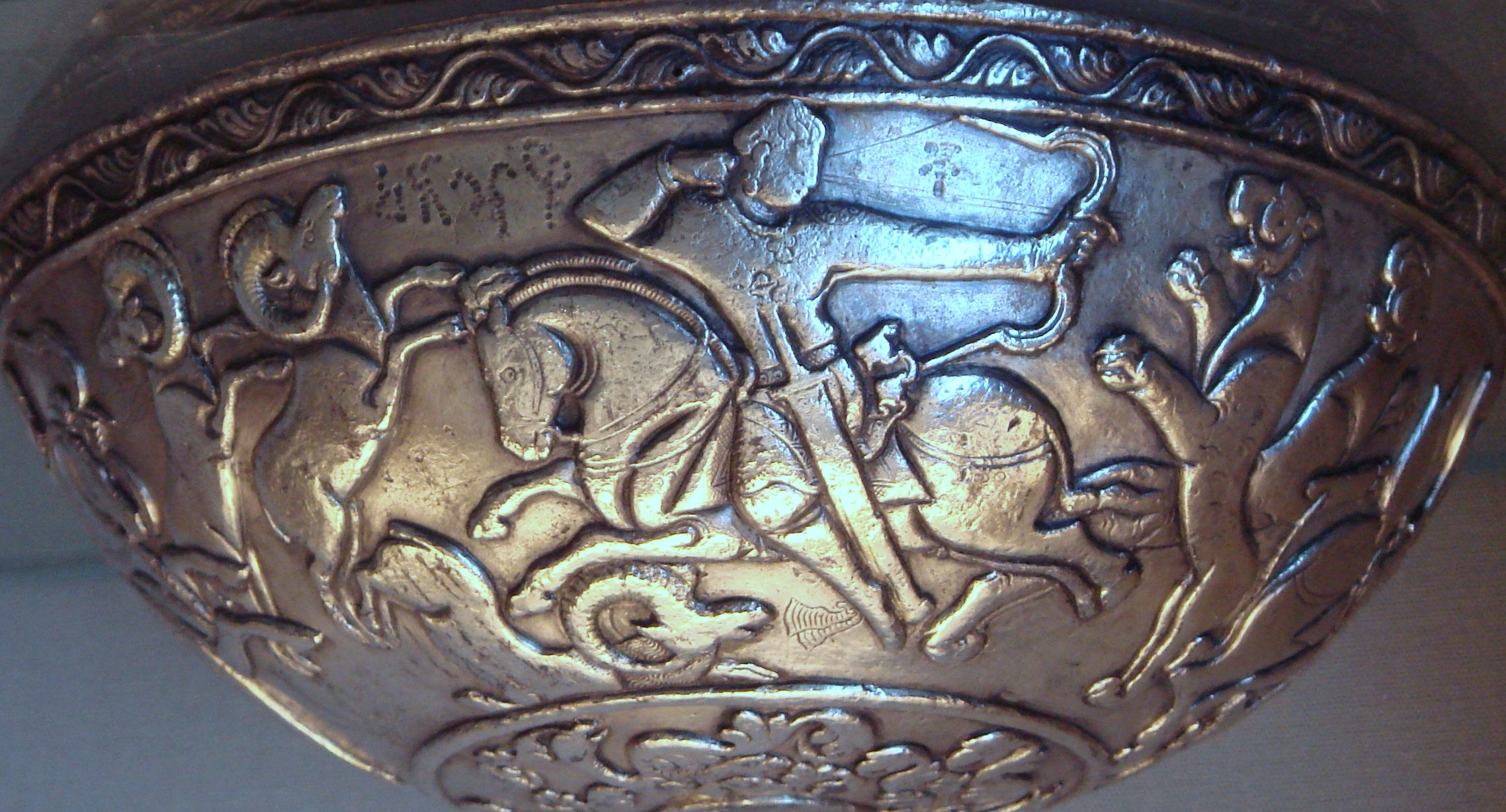 In full Details"Hepthalite bowl" in silver, NFP Pakistan, 5-6thcentury CE. British Museum notice